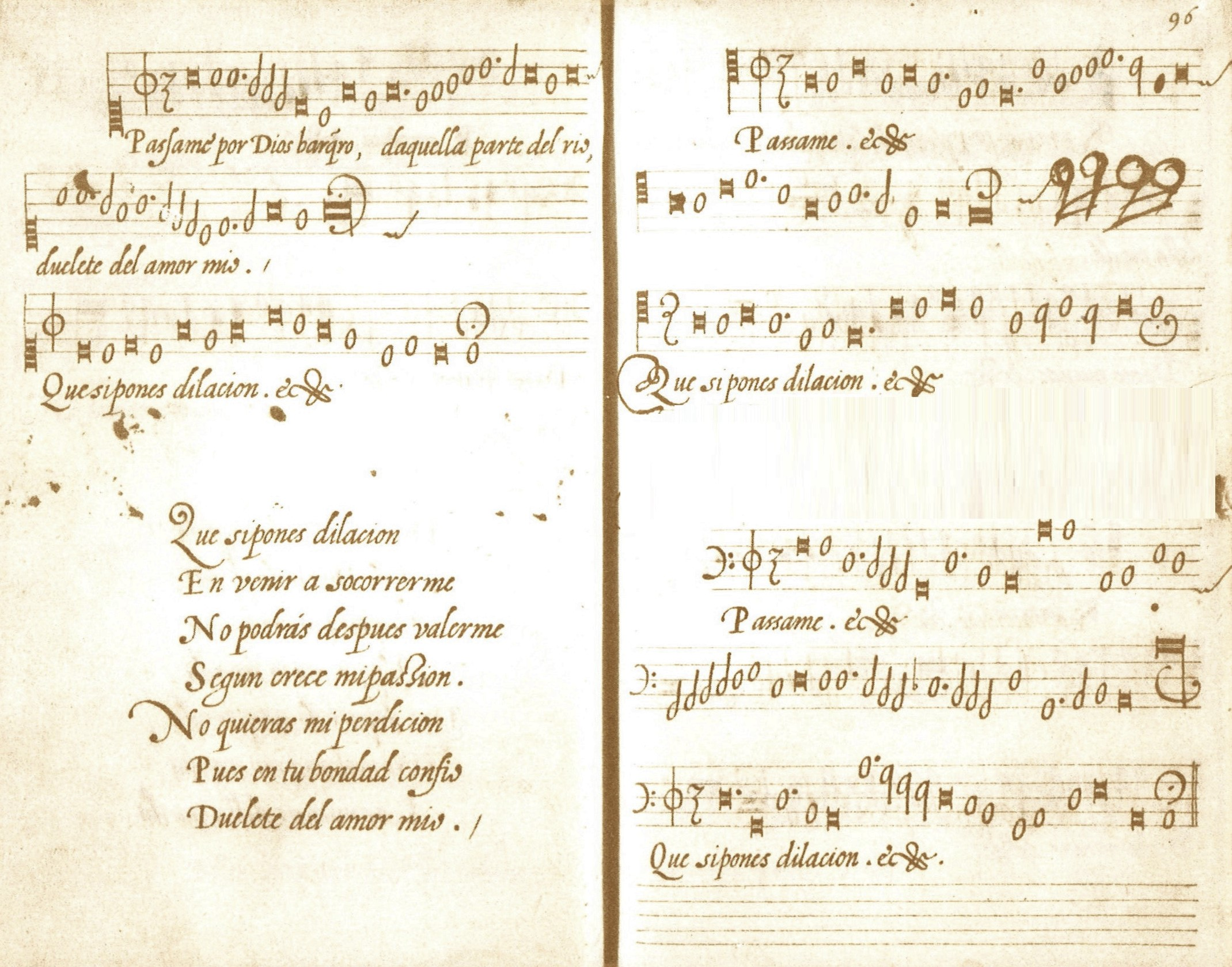 The Love villancico "Pásame, por Dios, barquero" (Spanish for "For God's sake, pass me boatman", a famous work by the Portuguese Renaissance composer Pedro de Escobar. Facsimile from the Elvas Songbook.